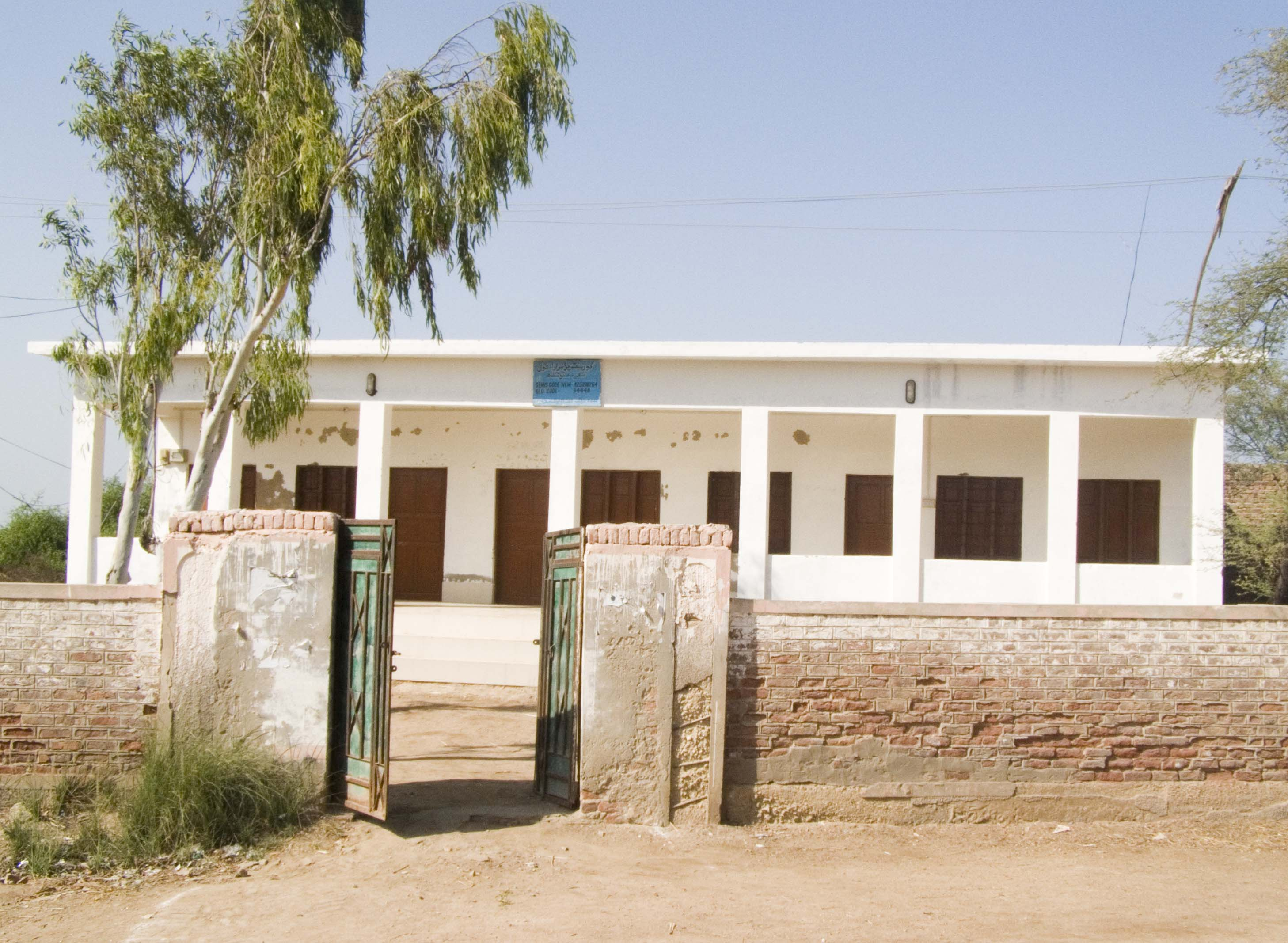 Government Primary School Syed Matto Shah